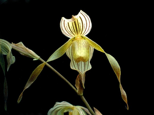 Paphiopedilum